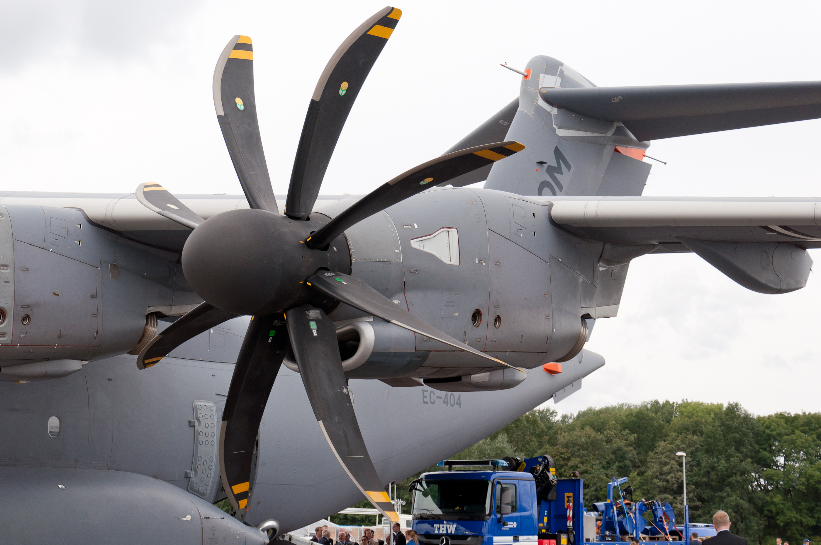 Close-up of an Europrop TP400 engine on an Airbus A400M at ILA Berlin Air Show 2012.